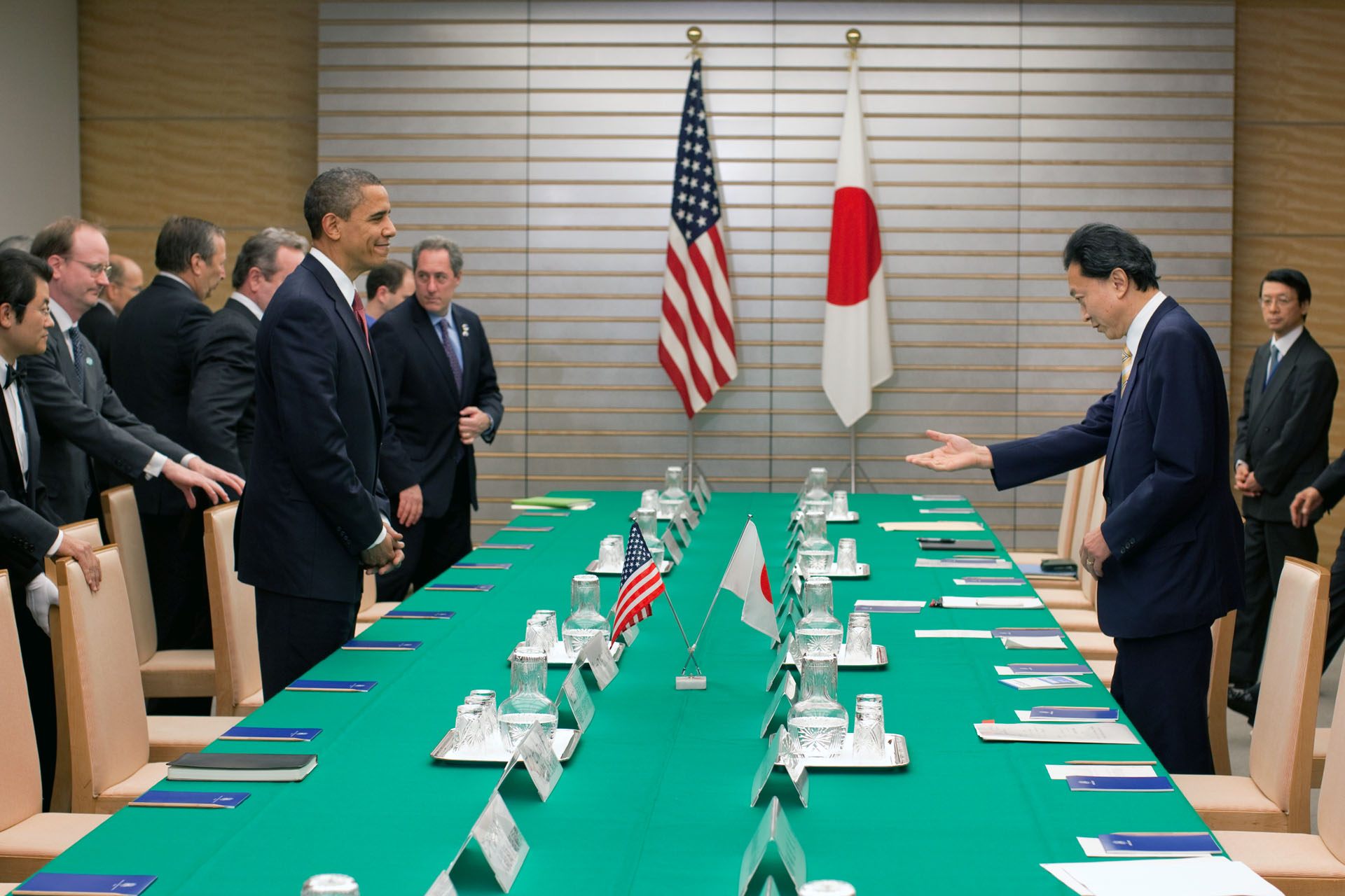 Barack Obama, President, met Yukio Hatoyama, Prime Minister, at the Kantei in Chiyoda Ward, Tōkyō Metropolis on November 13, 2009.